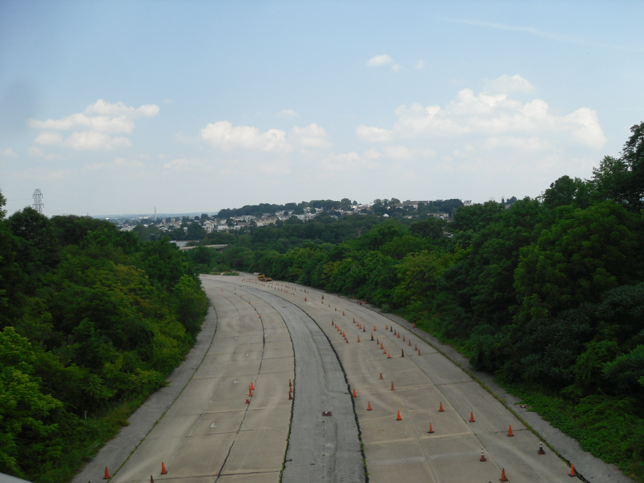 The abandoned freeway stub of the Schuylkill Parkway, which was intended to be a part of Pennsylvania Route 23, in Bridgeport, Pennsylvania